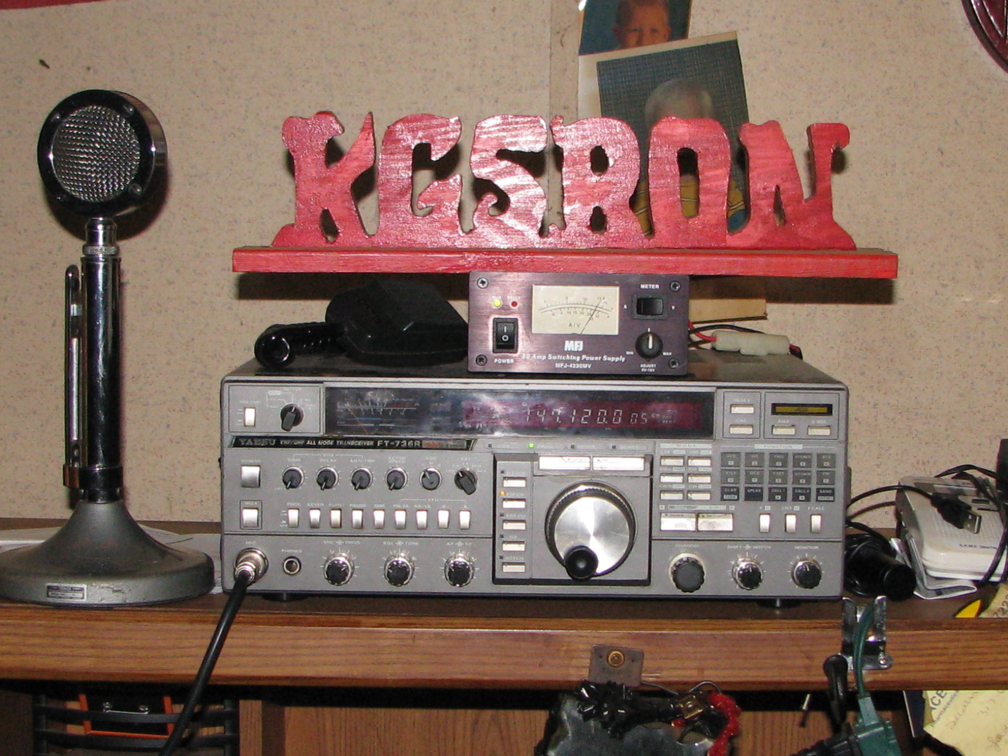 My Yaesu FT-736R dual band ham radio with my D-104 non powered microphone.